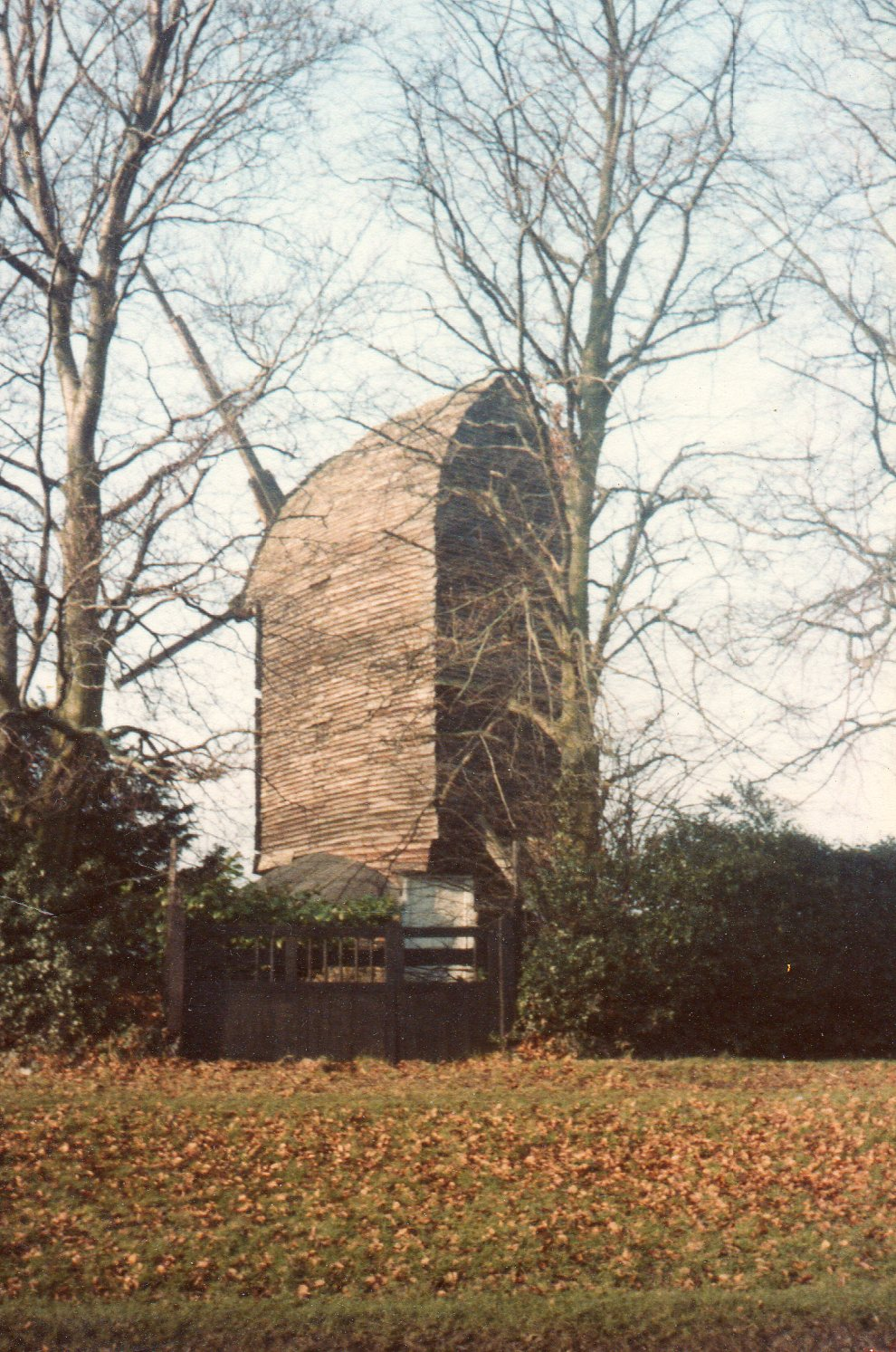 The Post mill at Keston, Kent